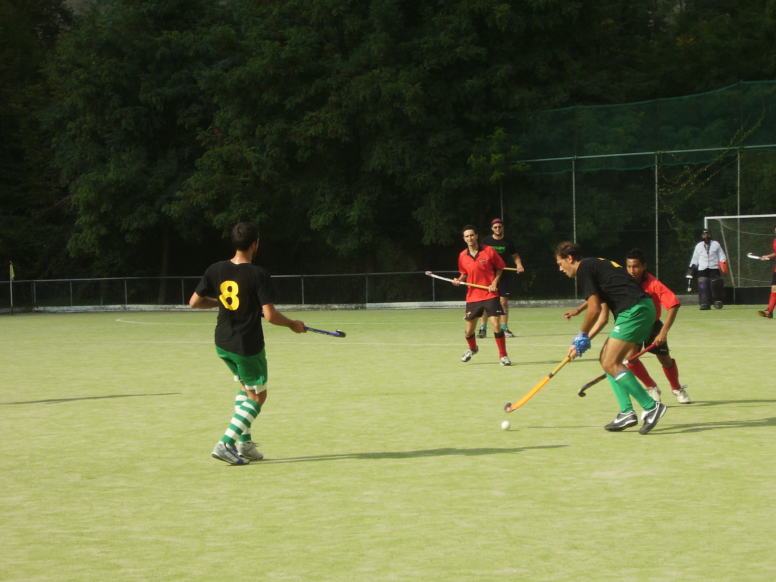 The 60th anniversary of CUS Genova Hockey: match HC Savona vs. HC Superba